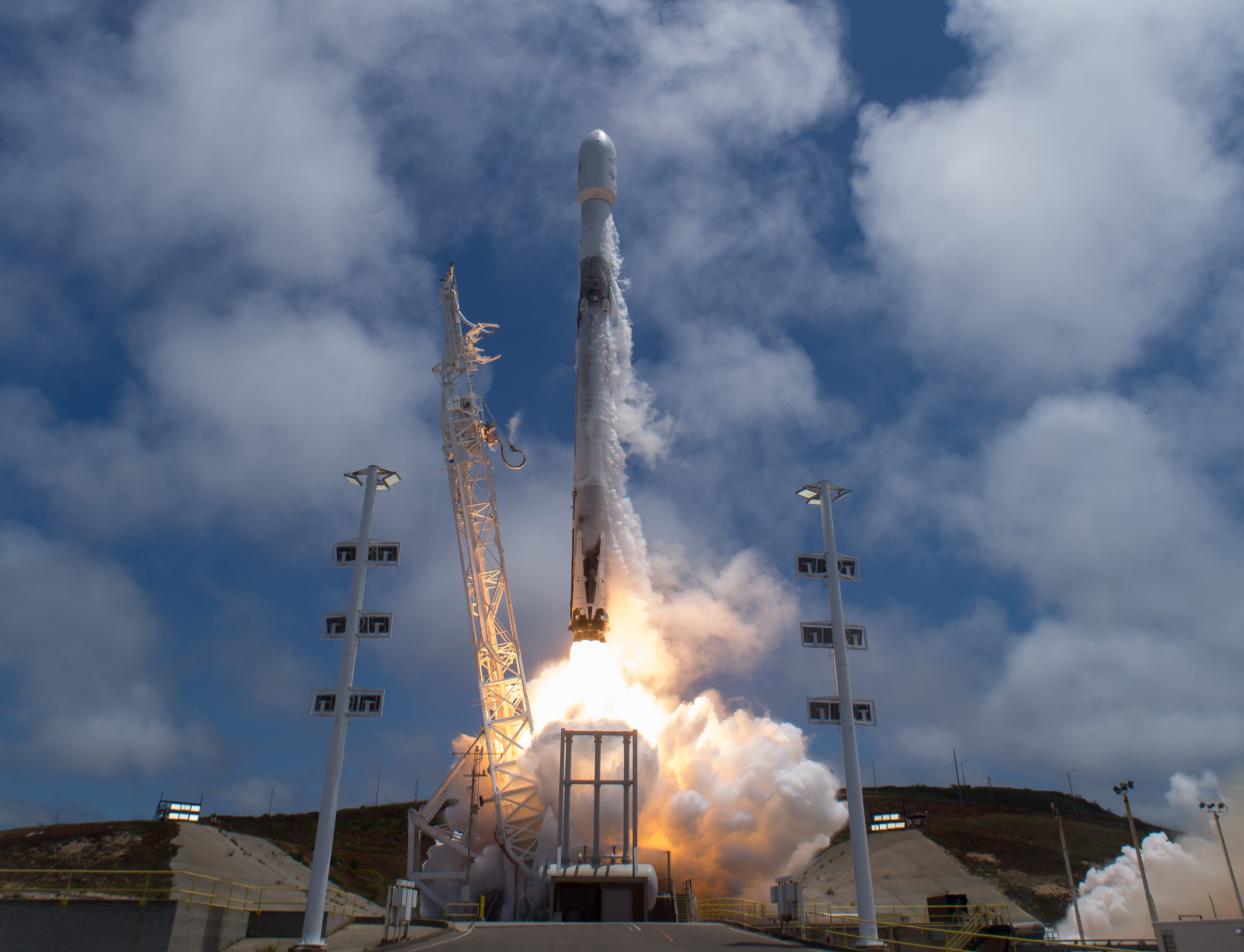 The NASA/German Research Centre for Geosciences GRACE Follow-On spacecraft launch onboard a SpaceX Falcon 9 rocket, Tuesday, May 22, 2018, from Space Launch Complex 4E at Vandenberg Air Force Base in California. The mission will measure changes in how mass is redistributed within and among Earth's atmosphere, oceans, land and ice sheets, as well as within Earth itself. GRACE-FO is sharing its ride to orbit with five Iridium NEXT communications satellites as part of a commercial rideshare agreement. Photo Credit: (NASA/Bill Ingalls)